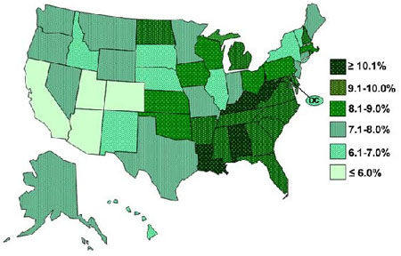 Percent of Youth 4-17 ever diagnosed with Attention-Deficit/Hyperactivity Disorder: National Survey of Children's Health, 2003